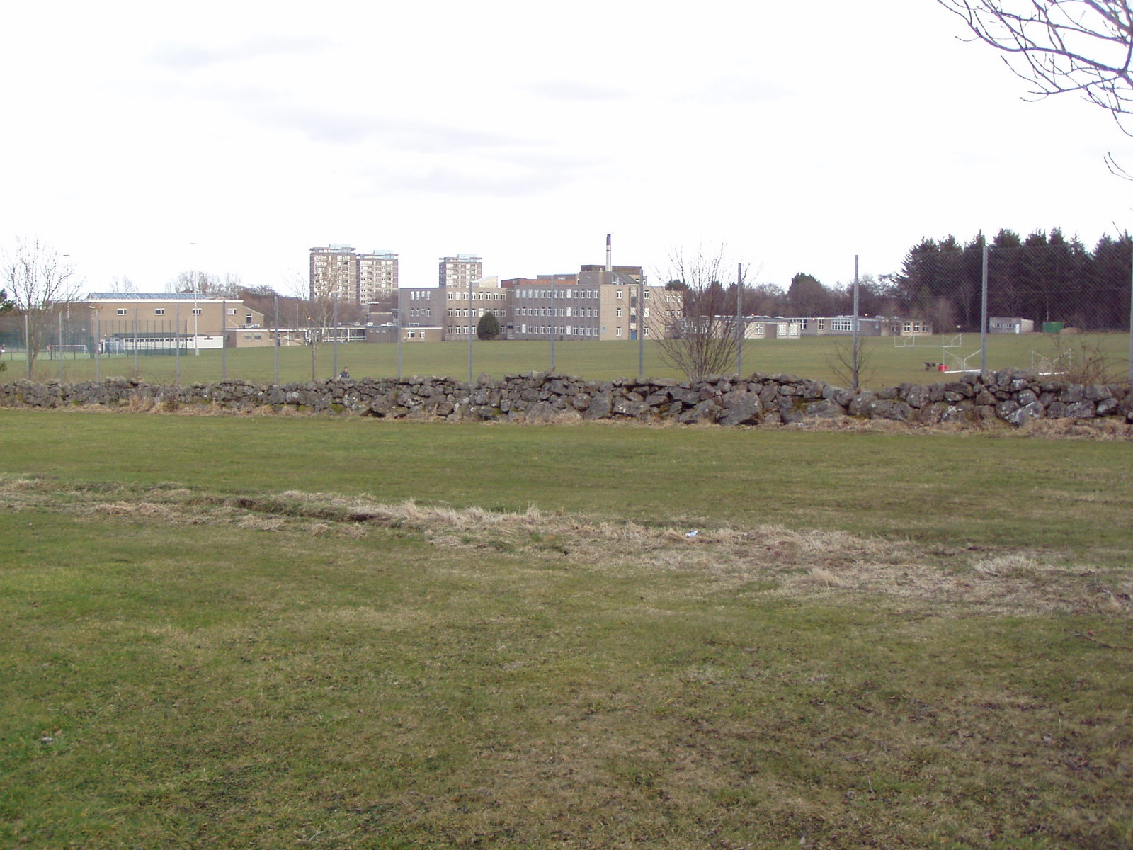 The back of Hazlehead Academy The building to the left is the swimming pool.